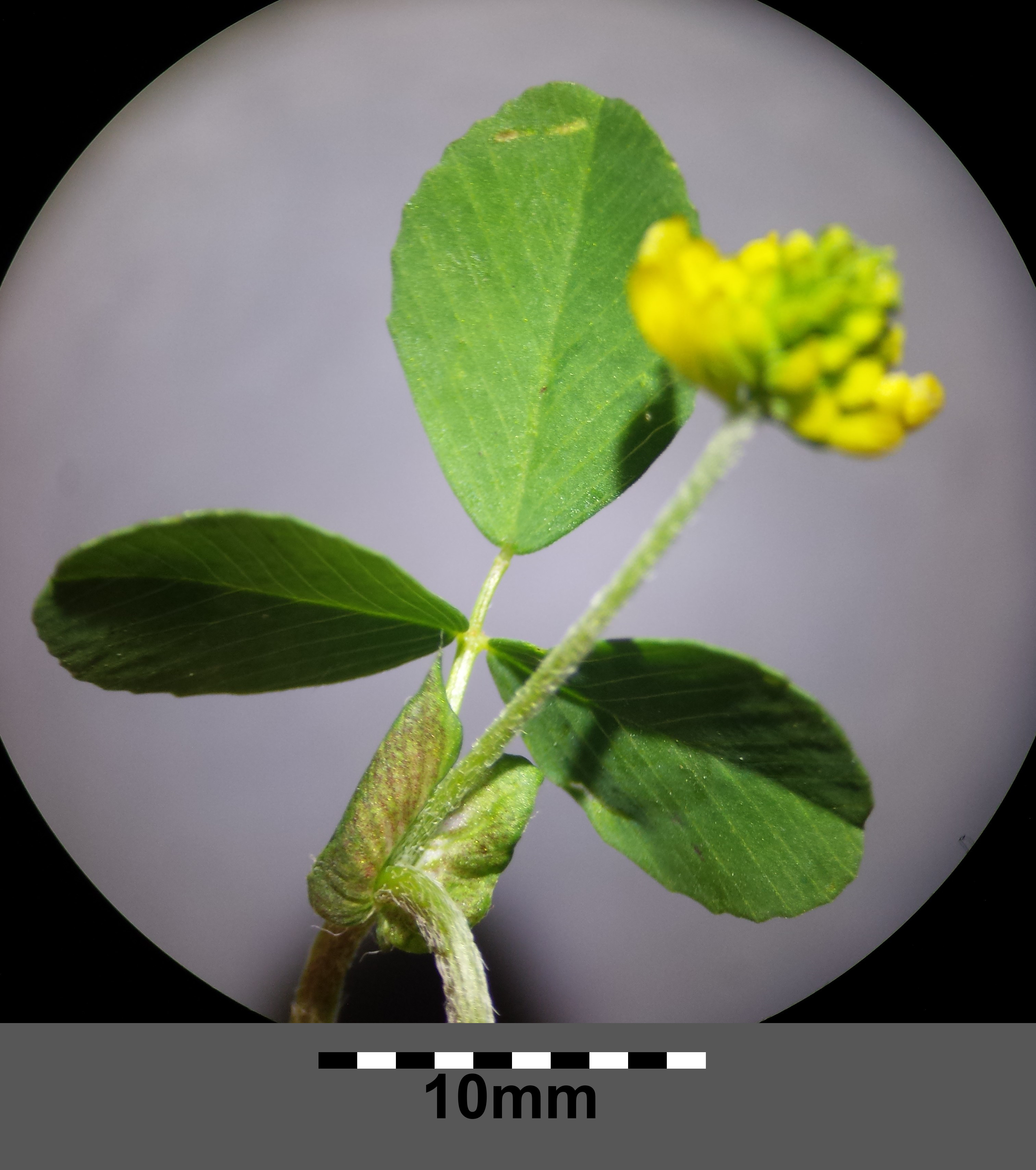 Stipe with leaf, stipules and inflorescence Taxonym: Trifolium campestre ss Fischer et al. EfÖLS 2008 ISBN 978-3-85474-187-9 Location: Neue Donau, Vienna-Floridsdorf - ca. 160 m a.s.l. Habitat: dry meadows